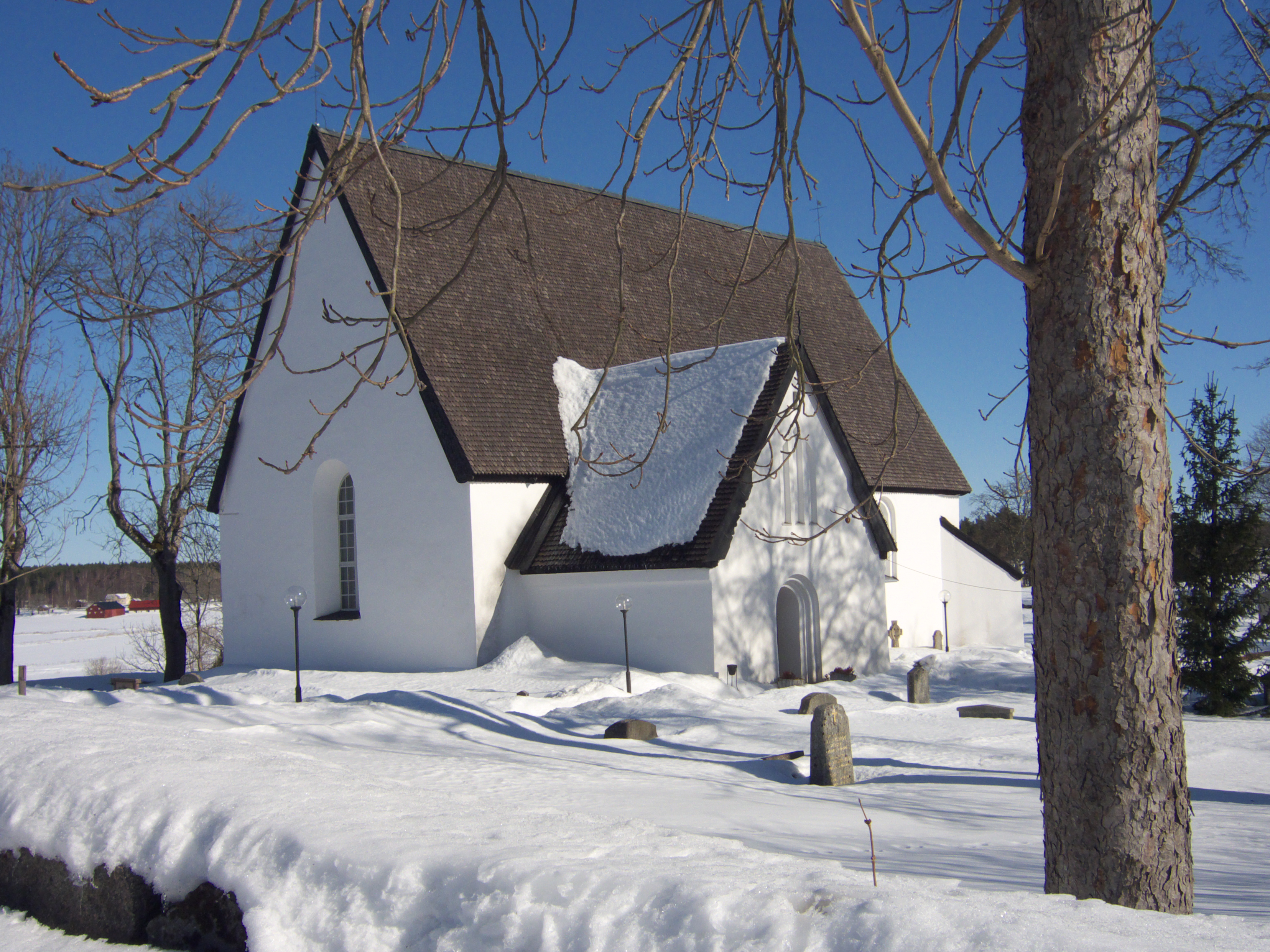 Härkeberga church